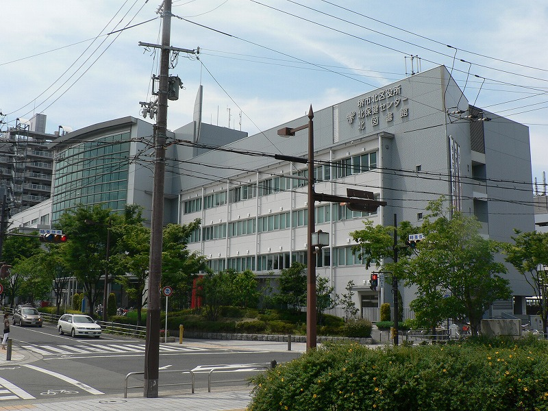 Kita ward office, Sakai city, Osaka prefecture, Japan.